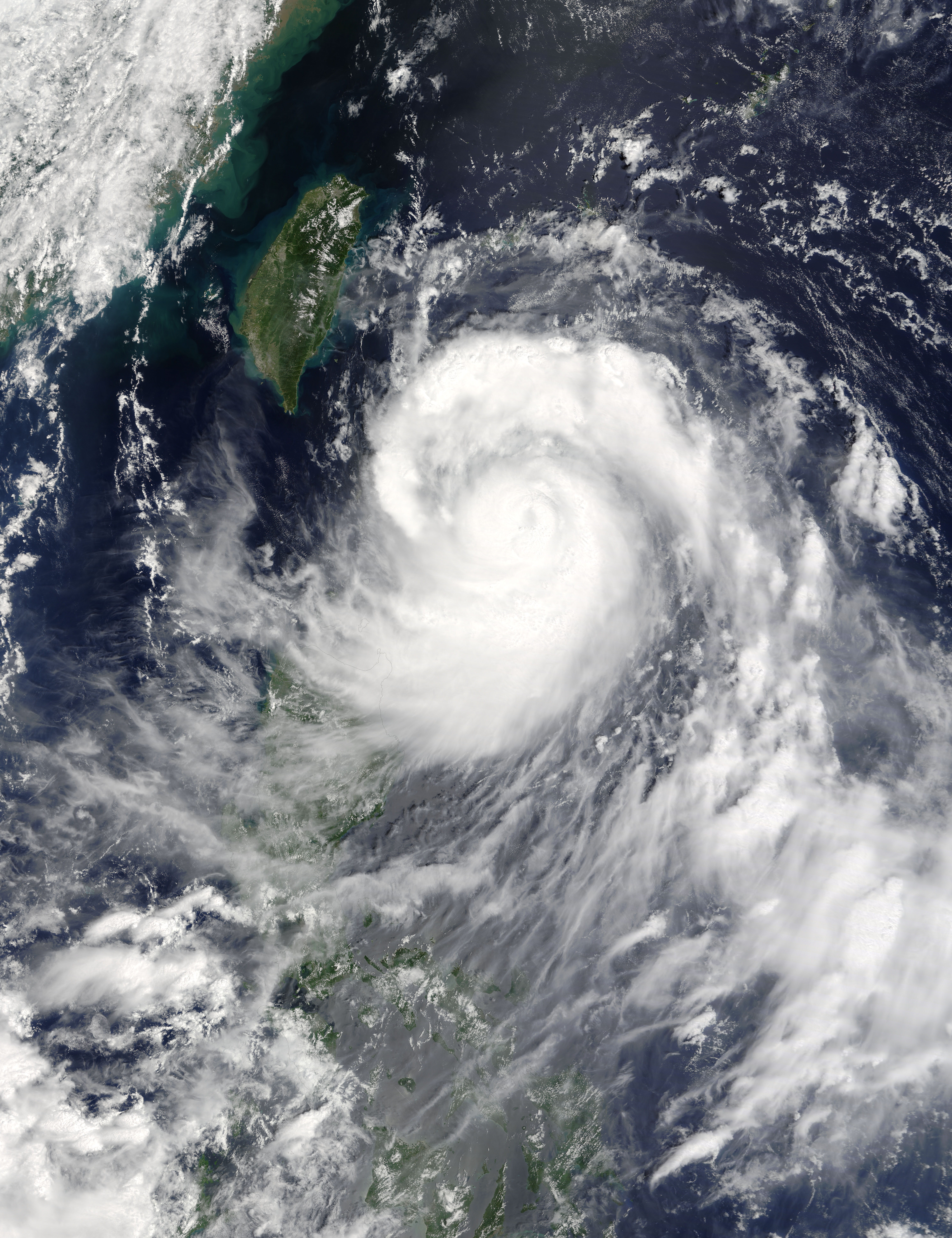 Typhoon Malakas southeast of Taiwan on September 16, 2016.